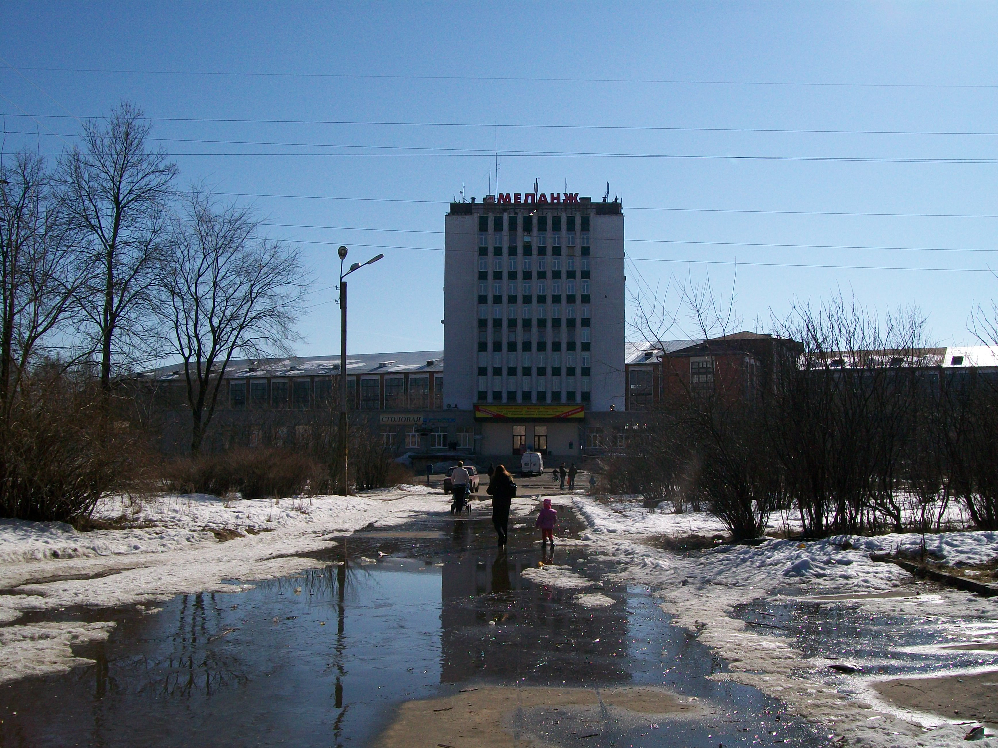 Ivanovo. Melange industrial complex